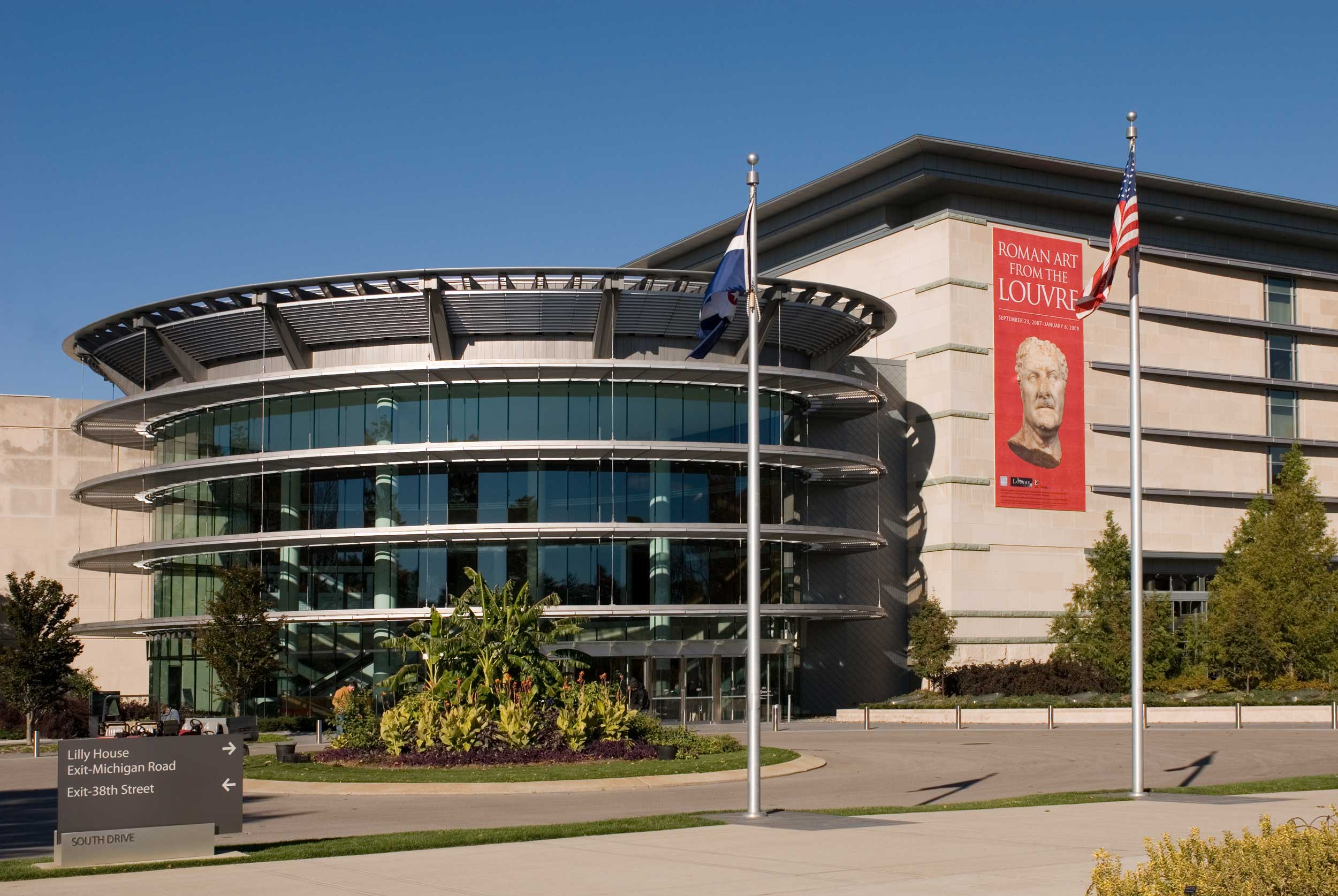 Indianapolis Museum of Art, architect Edward Larrabee Barnes. Photo by Chuck Szmurlo taken November 1, 2007 with a Nikon D200 and a Nikon 28-70 f2.8 lens.